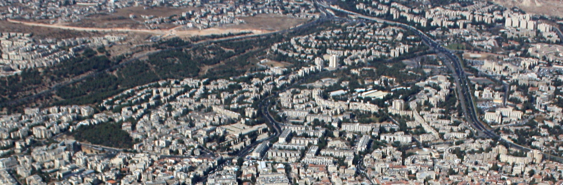 Shmuel HaNavi, Ramot Eshkol and Givat Hamivtar